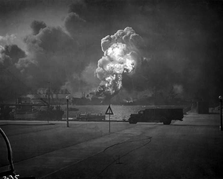 Pearl Harbor attack- Caption: "A series of four photographs showing the magazine of the USS Shaw (DD-373) exploding. "The most remarkable combat photographs of all time - taken at the exact moments the destroyer blew up."